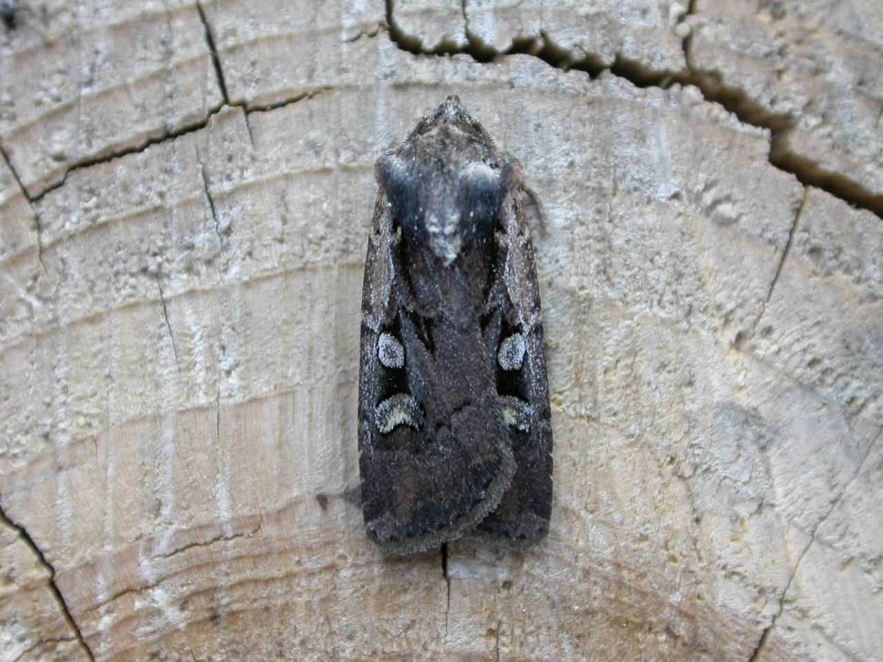 Euxoa obelisca, to MV light, Hellerup, Denmark, 9 August 2003